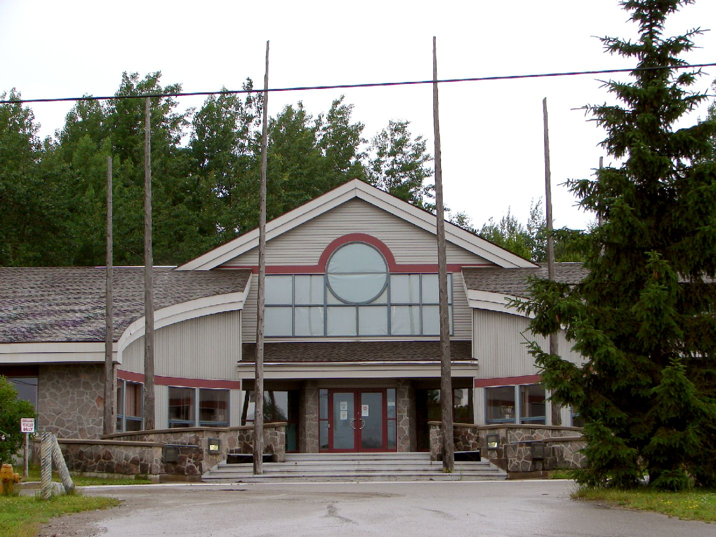 Sagamok First Nations Reserve, Ontario, Canada